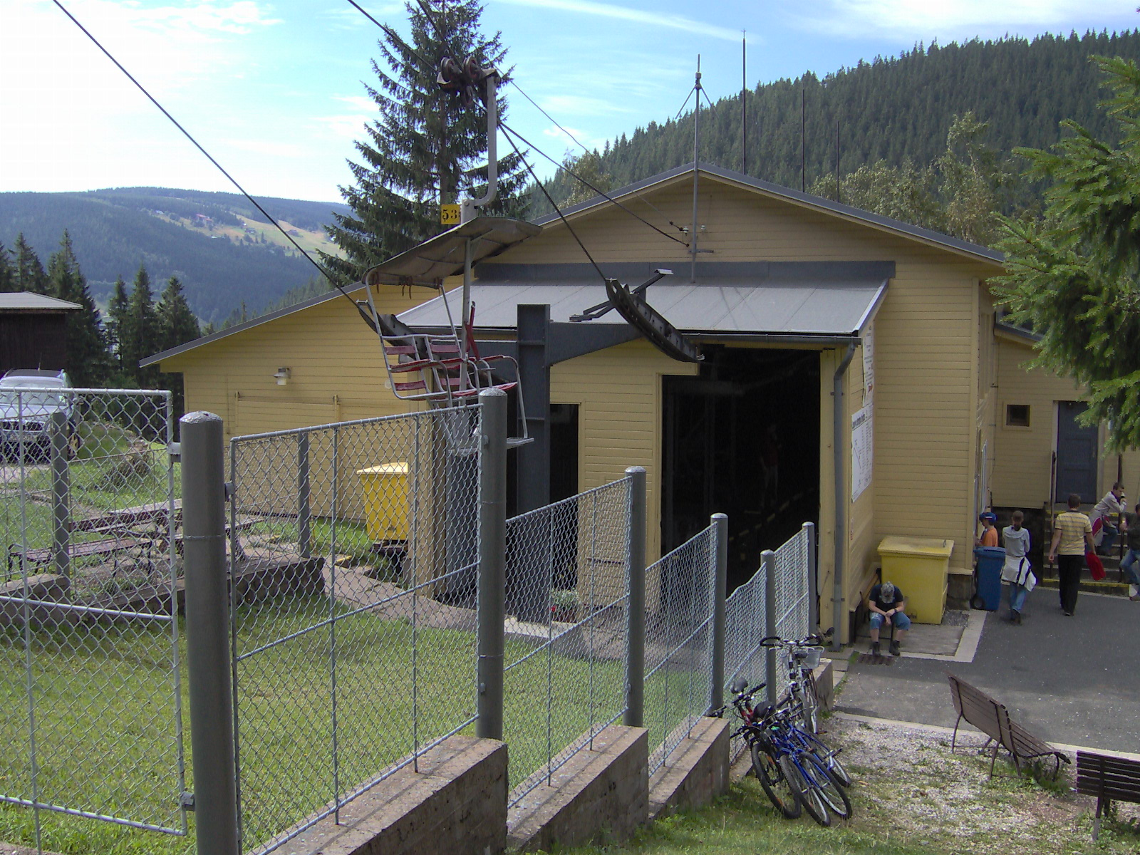 Chairlift Pec pod Sněžkou - Růžová hora - Sněžka, lower station Pec pod Sněžkou